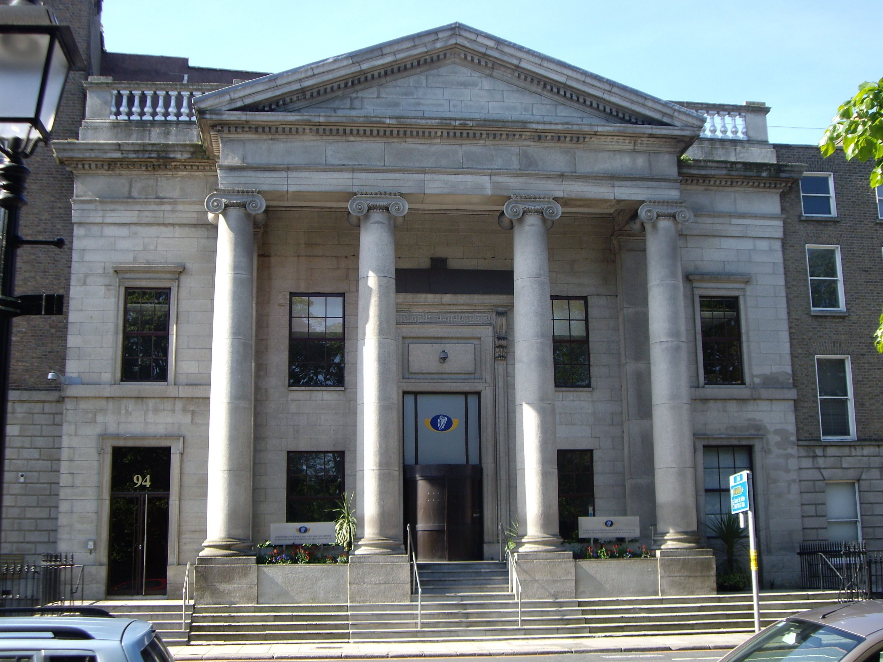 Building at address 94, St Stephen's Green, South, Dublin 2: Used by the Irish Department of Justice, Equality and Law Reform